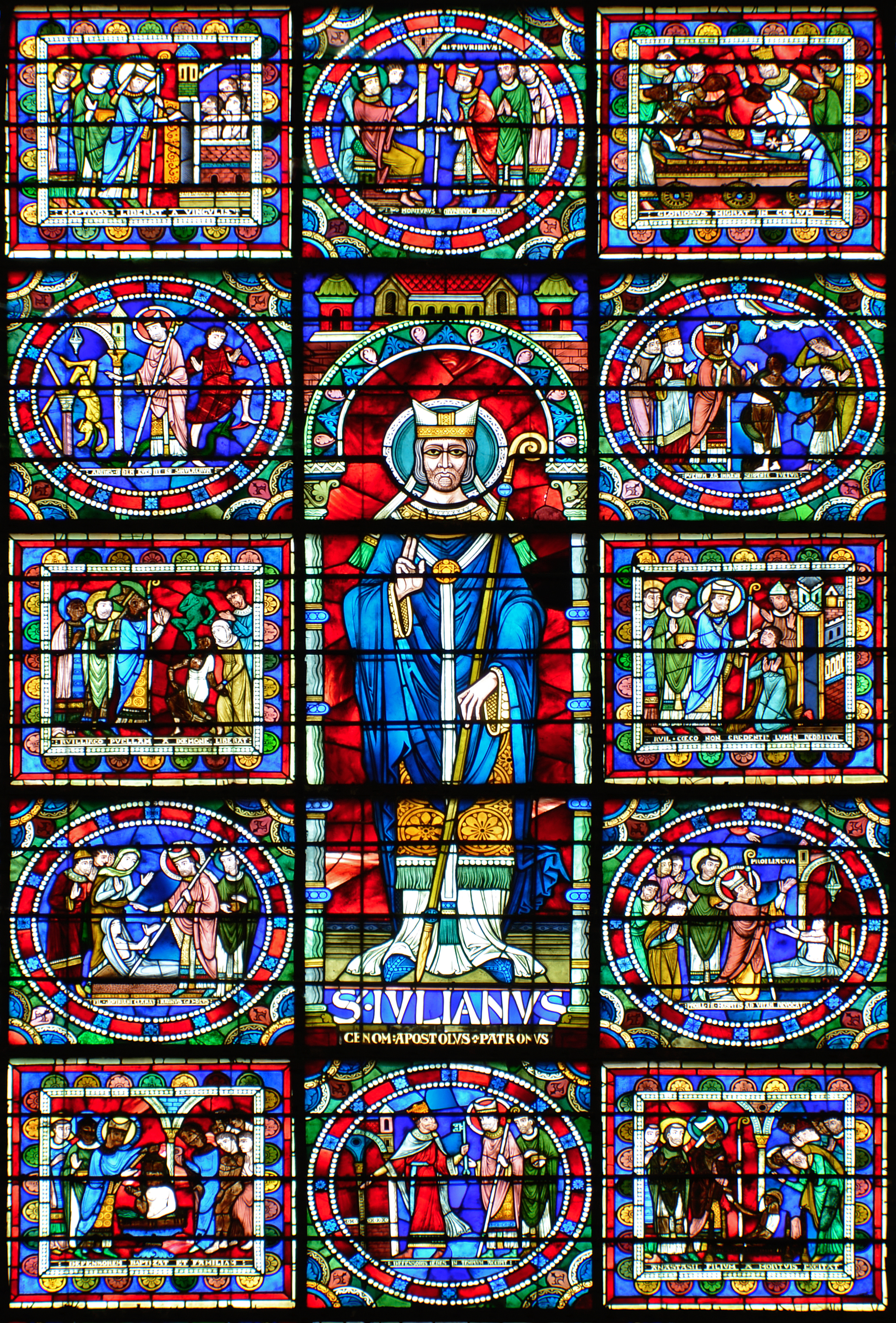 Stained glass depicting Julian of Le Mans - Le Mans Cathedral - Le Mans (Sarthe, France) .